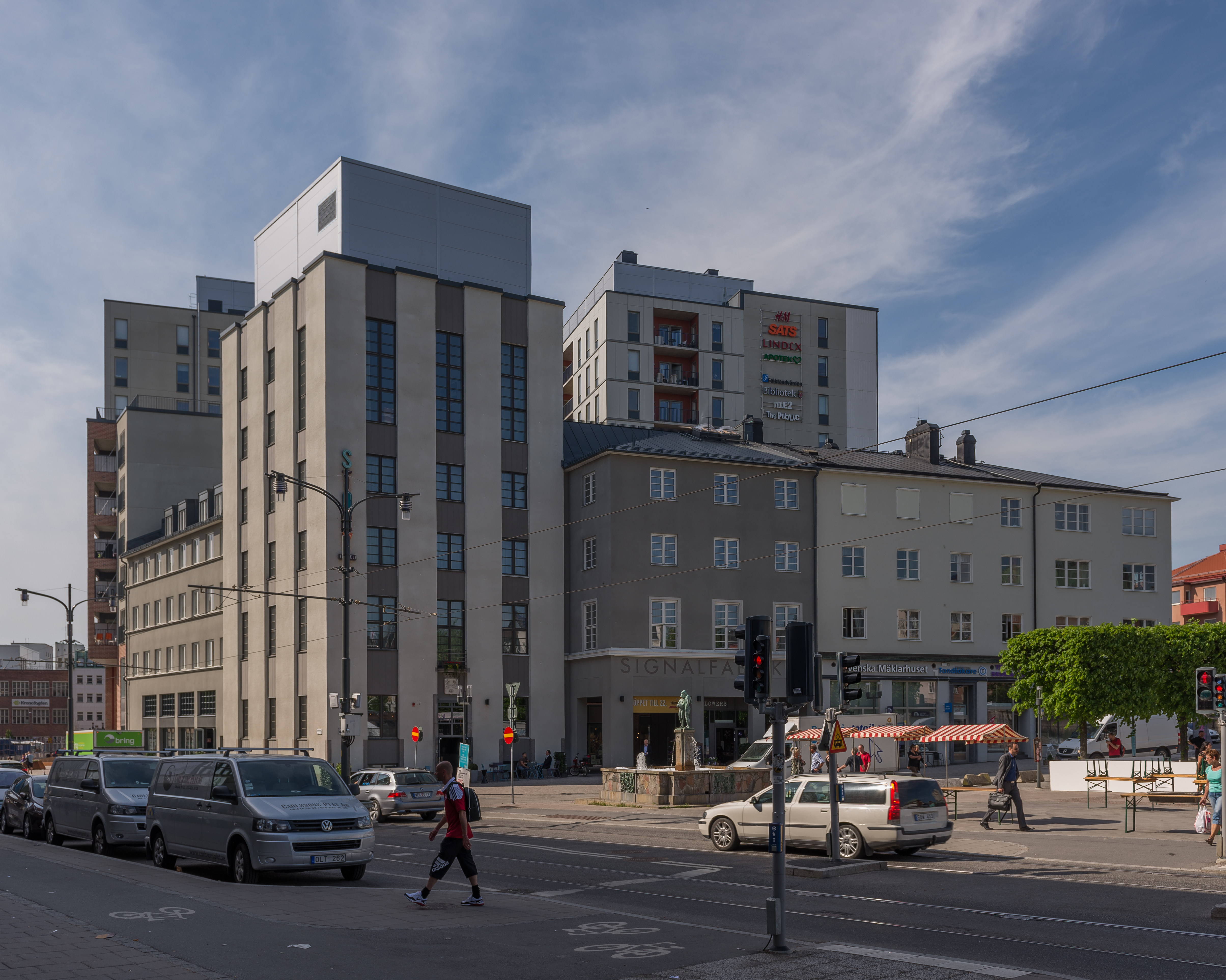 Signalfabriken (swedish The Signal Factory) is a old industrial block in Sundbyberg. It is being converted into flats, offices, city library and shops.